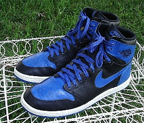 Air Jordan 1 "Royal", Blue & Black these are NOT nike Air Force Ones. Air Jordan 1 was not based on the Nike DUNK